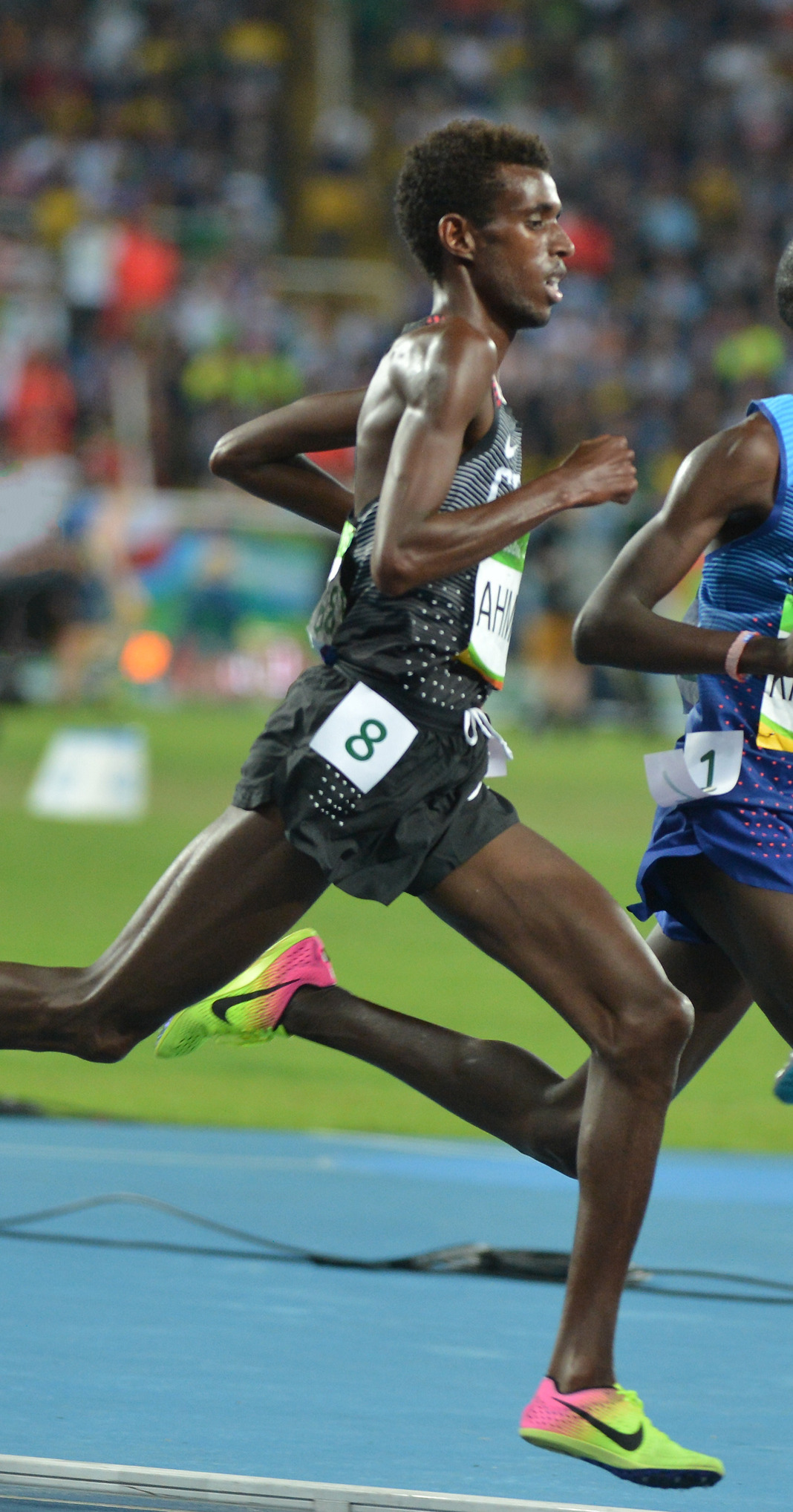 Spcs. Leonard Korir and Shadrack Kipchichir finish 14th and 19th respectively in the men's 10,000-meter run Aug. 13 at the 2016 Rio Olympic Games in Rio de Janeiro. Both Soldiers in the U.S. Army World Class Athlete Program turned in their season-best performaces, with Korir finishing in 27 minutes, 58.65 seconds and Kipchirchir clocked at 27:58.32. Mohamed Farah of Great Britain successfully defended his Olympic crown by winning the race in 27:05.17. Paul Kipnetech Tanui of Kenya took the silver in 27:05.64, and Tamirat Tola of Ethiopia claimed the bronze in 27:06.27.